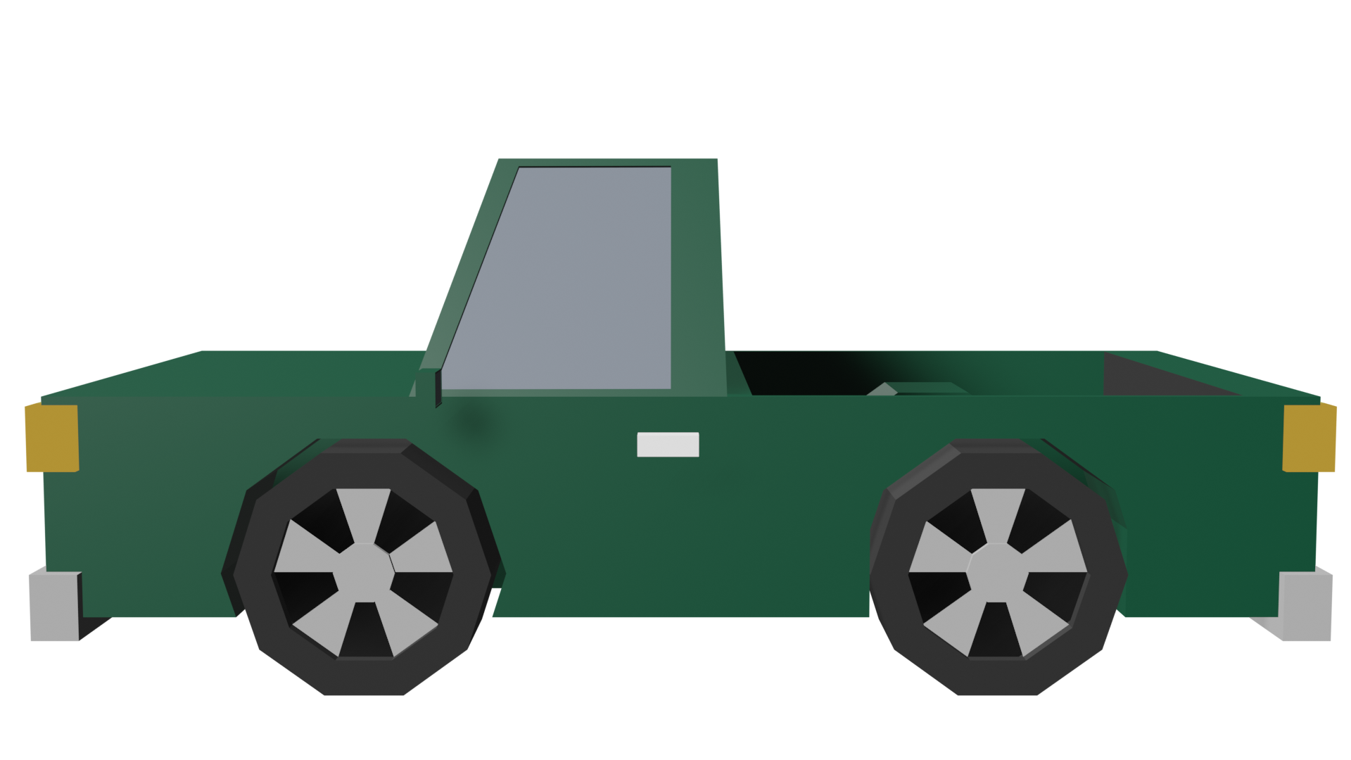 Animation, cartoon, 3D model, clipart, video game sprite